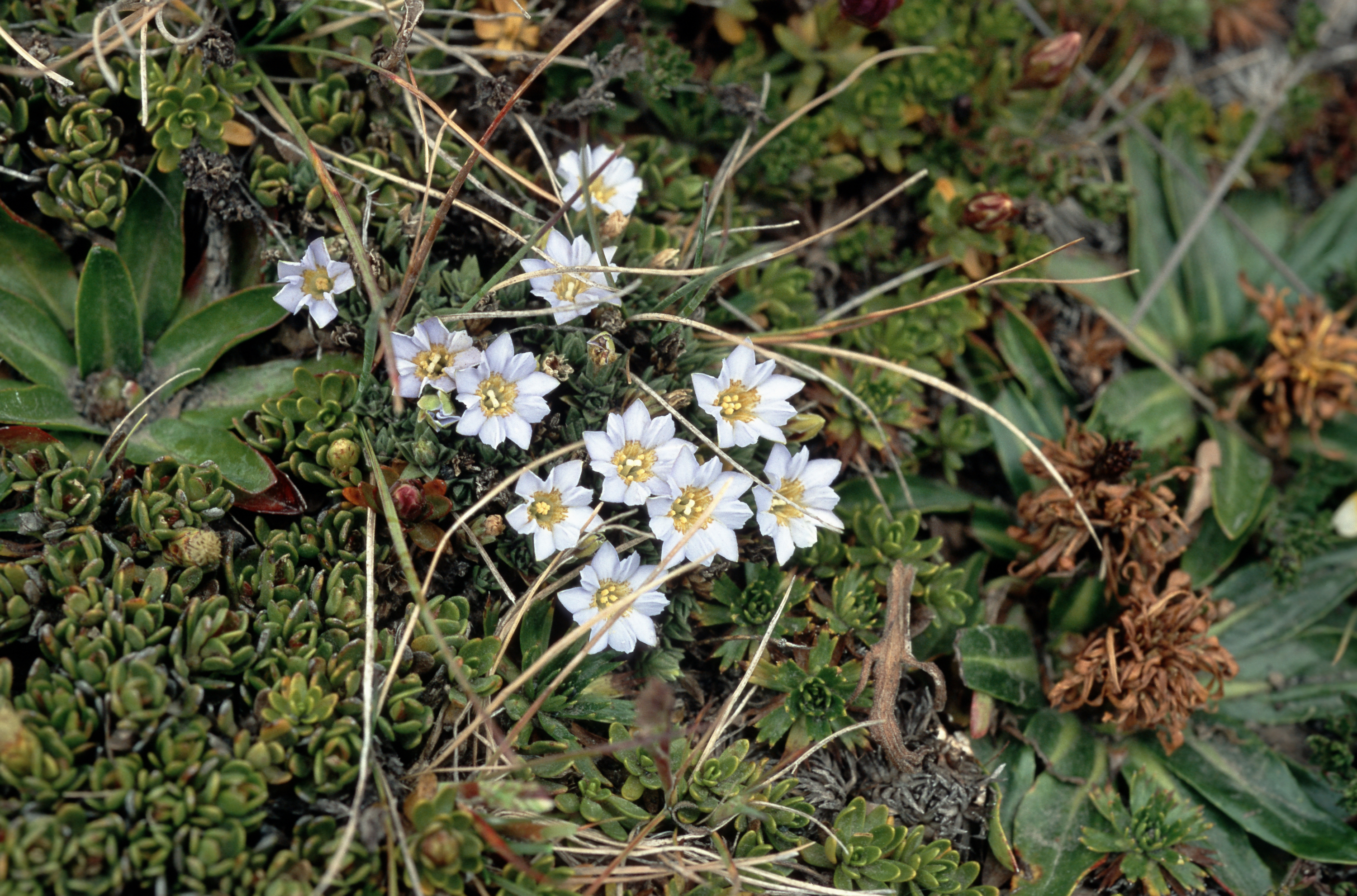 Gentiana sedifolia, Cotopaxi, Ecuador